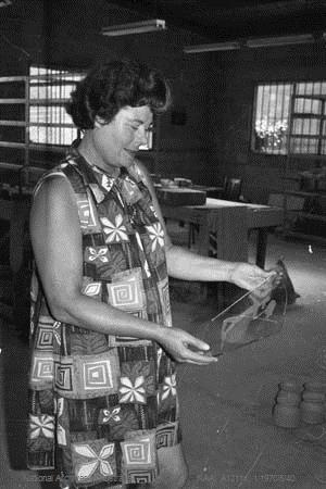 Immigration - Migrants in the arts and entertainment in Australia - British Artist practises glass engraving. Anne Dybka. PRINCIPAL CREDIT: Department of Immigration and Multicultural and Indigenous Affairs (DIMIA) The names of the files give their series and control symbols: National Archives of Australia series: A12111 Control symbol: 1/1970/6/40